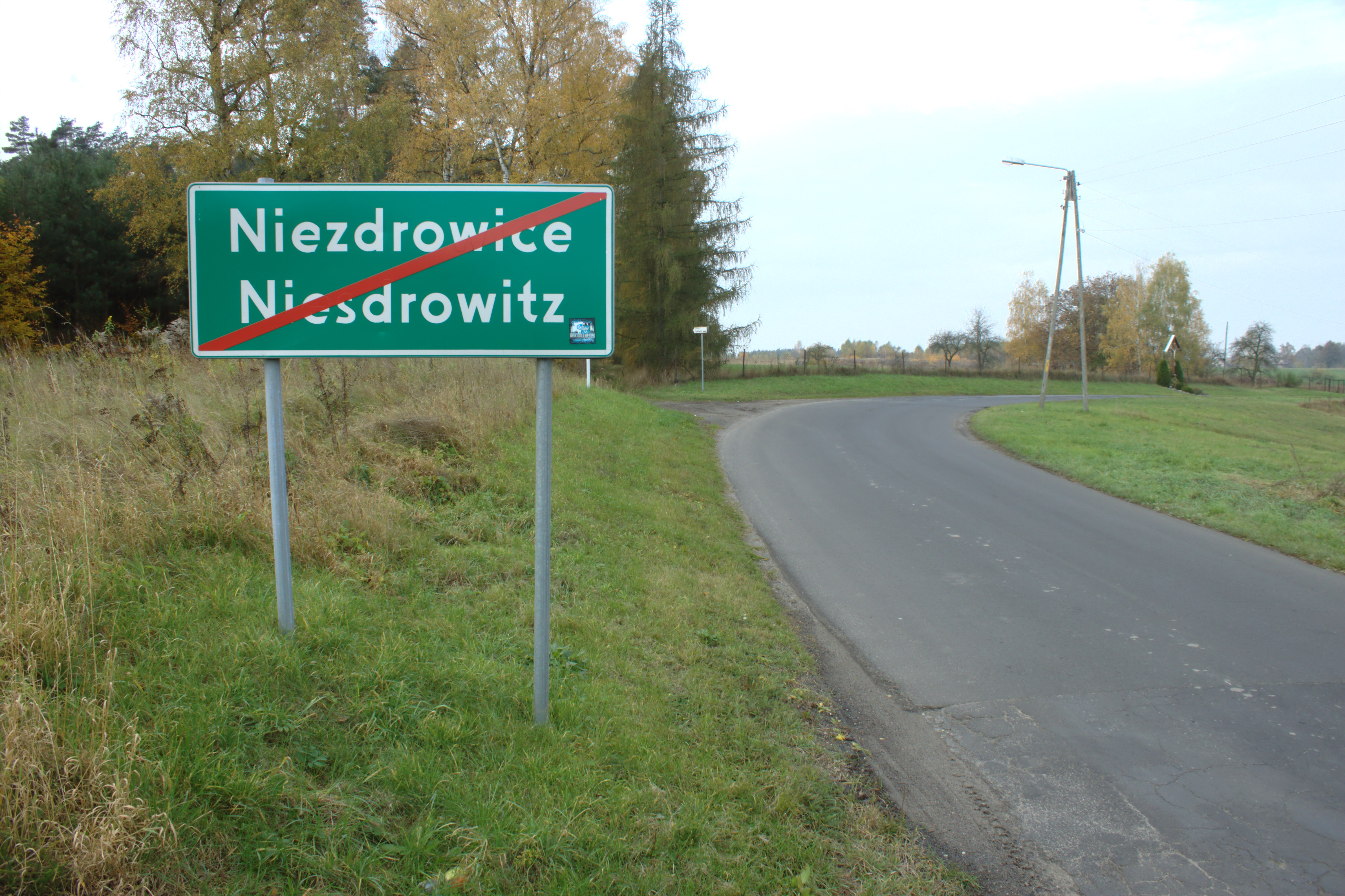 Western edge of the village of Niezdrowice, Poland